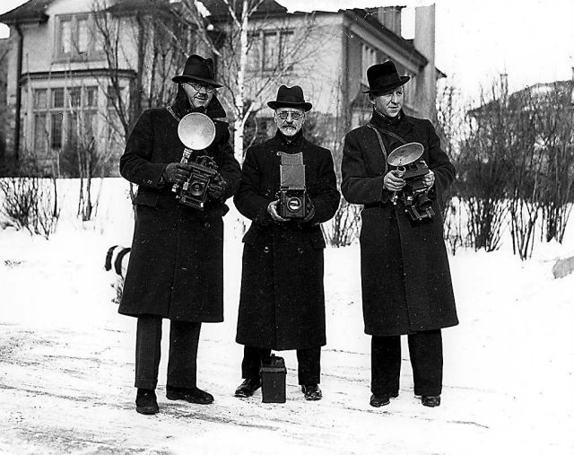 Photographer William James and two of his sons in 1936. Original caption: "Photographers Bill James, William James Sr., and Norman James, 1936. City of Toronto Archives, Fonds 1244, Item 3509" This image is available from the City of Toronto Archives, listed under the archival citation Fonds 1244, Item 3509. This tag does not indicate the copyright status of the attached work. A normal copyright tag is still required. See Commons:Licensing for more information.